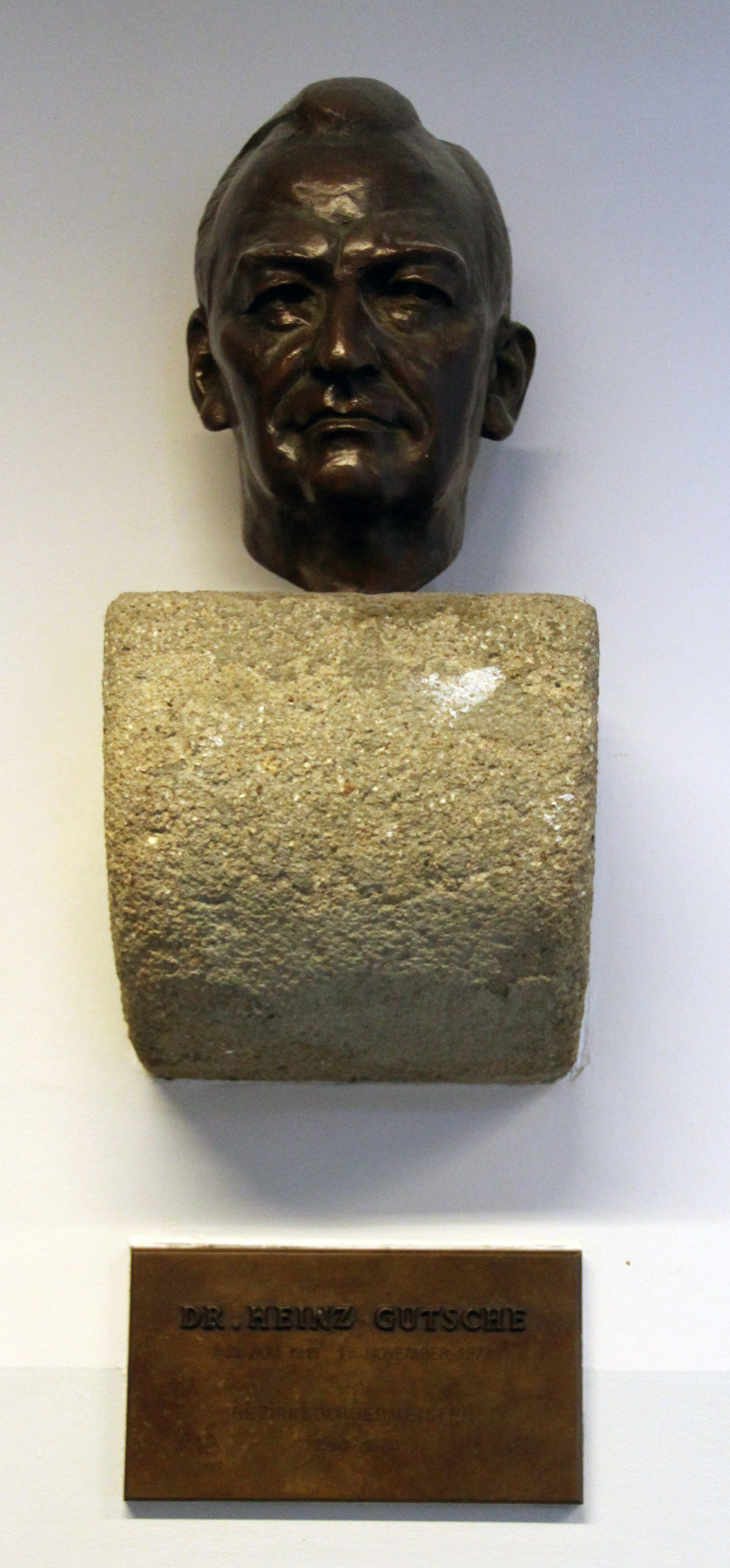 Bust, Heinz Gutsche, Eichborndamm 215, Berlin-Wittenau, Germany